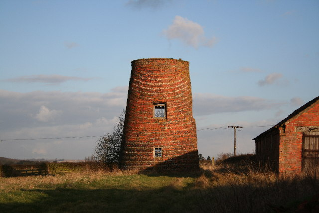 The stump of Middle Rasen Mill, Lincolnshire